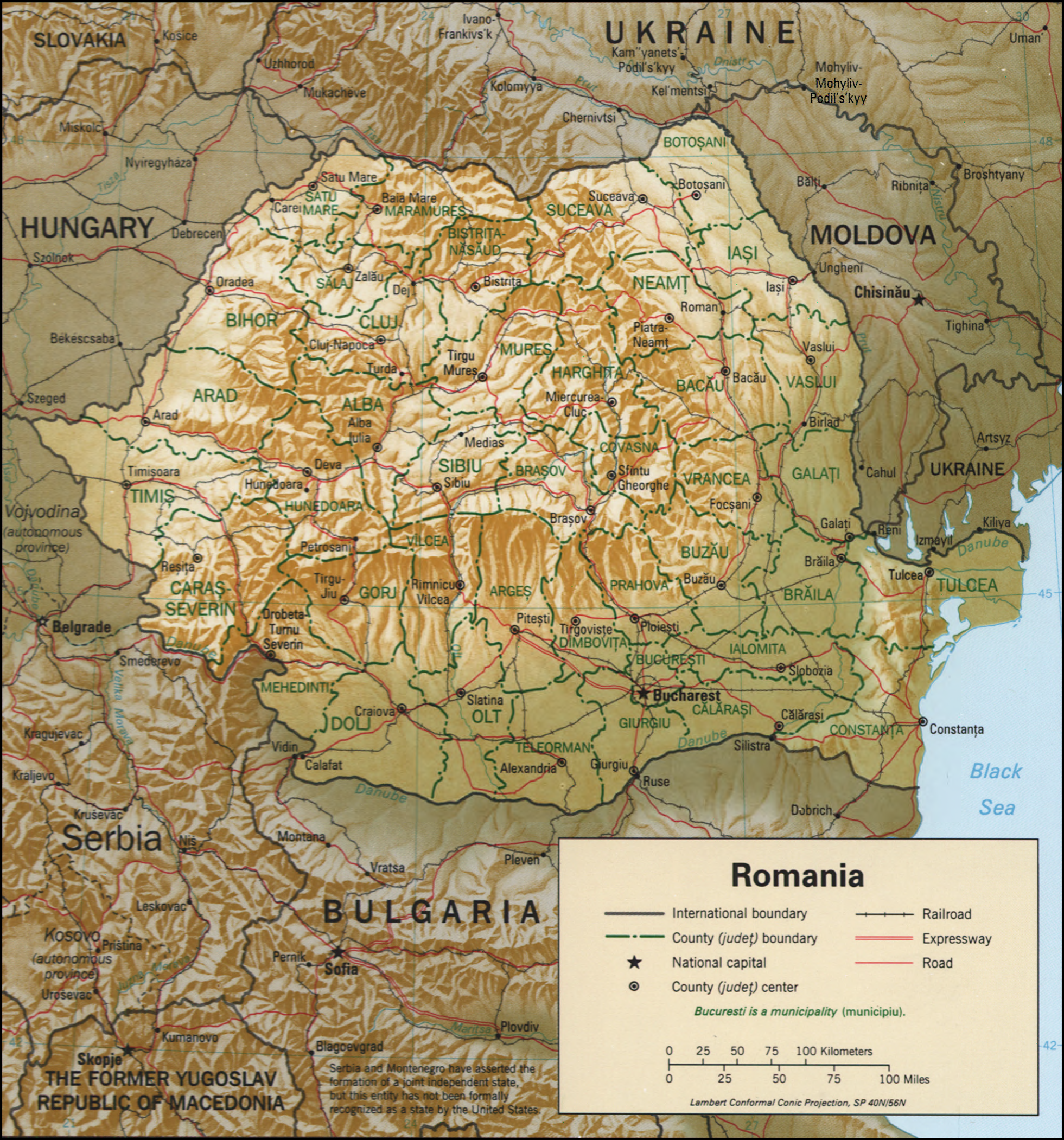 Map of Romania.